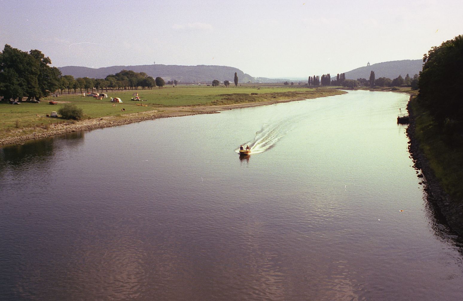 View south of the River Weser as it travels north from Porta West Falica under the Road bridge in Minden Germany. In the distance to the right is the Kaiser Wilhelm Denkmal Monument.